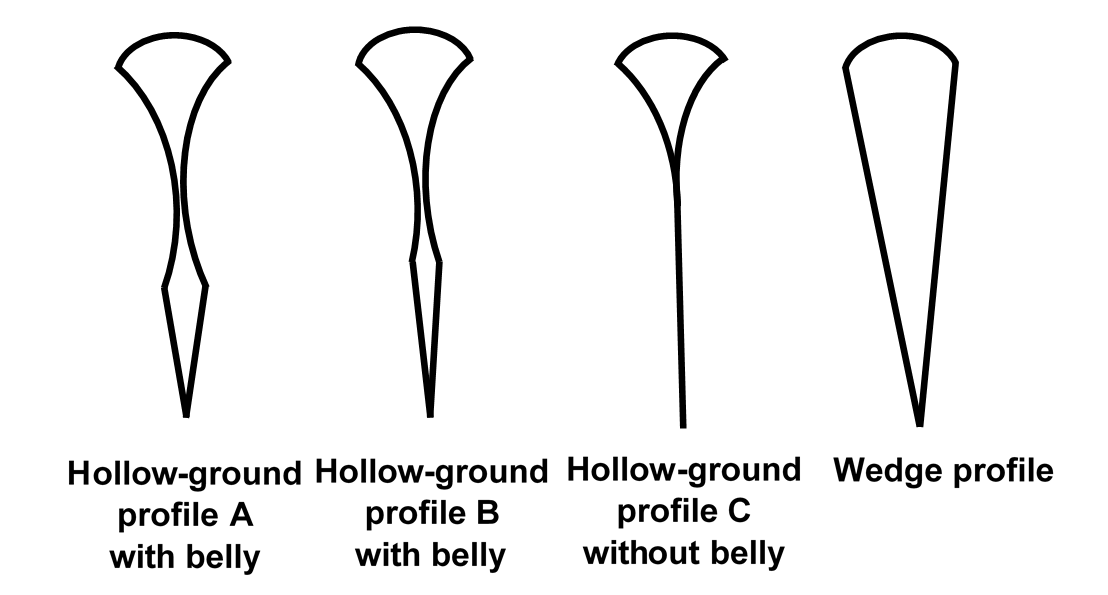 Four blade profiles, Also see hollowness chart